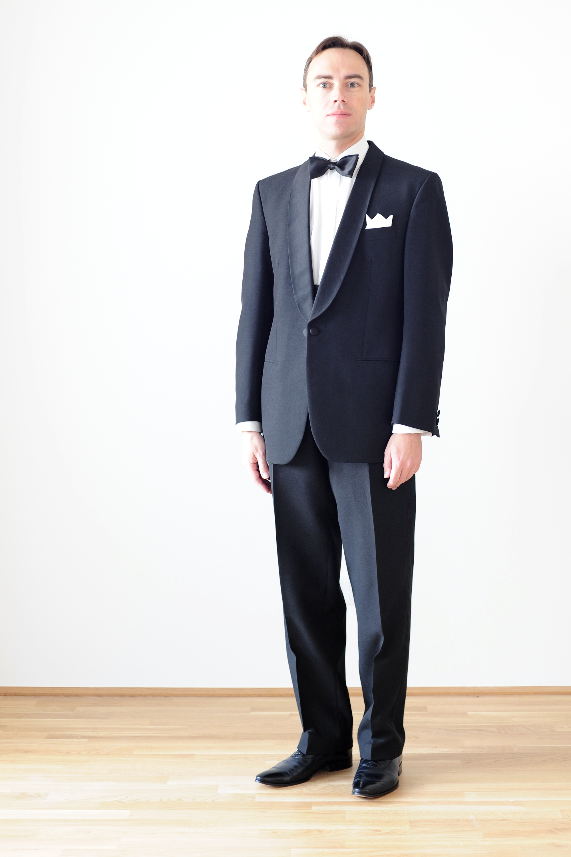 This picture shows a man wearing a dinner suit. The jacket is single-breasted with a shawl lapel. Over the buttons of the jacket a small part of the cummerbund is visible. The shoes are a pair of oxfords.